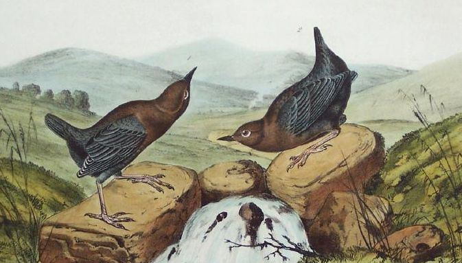 Cinclus mexicanus